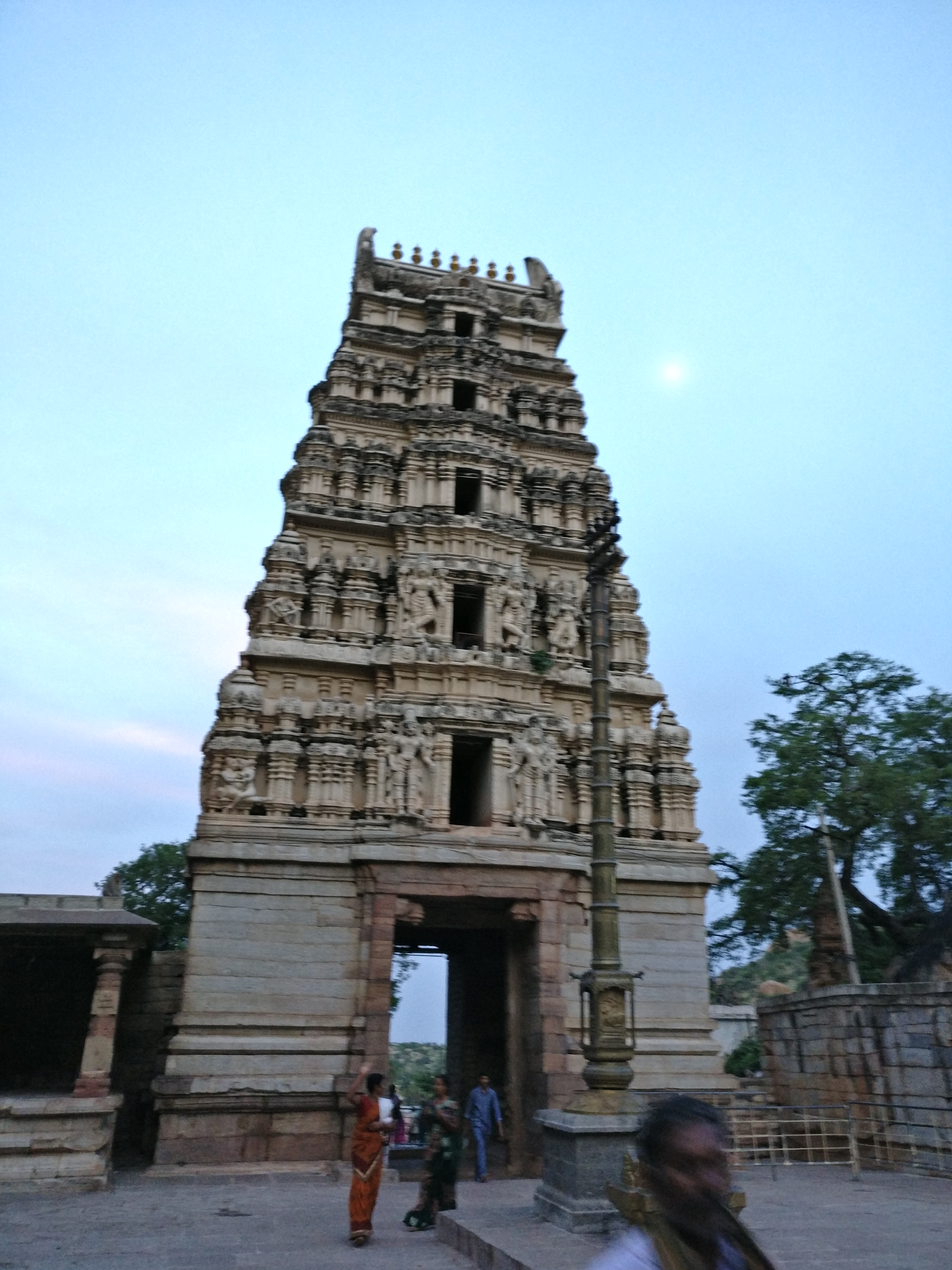 Yaganti is one of the most famous Shiva Temple is Andhra Pradesh and also one of the popular places to experince AP Tourism.